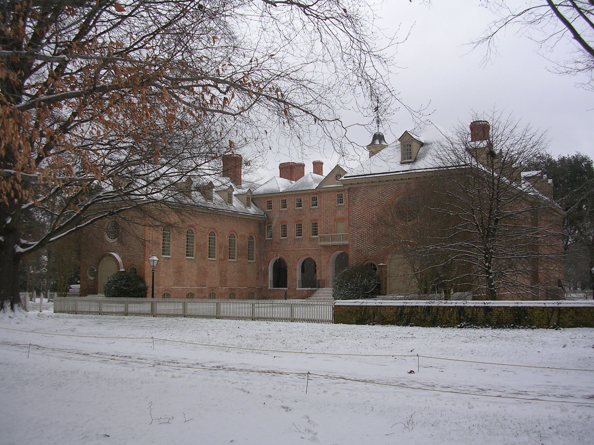 The Wren Building at the College of William and Mary in the snow